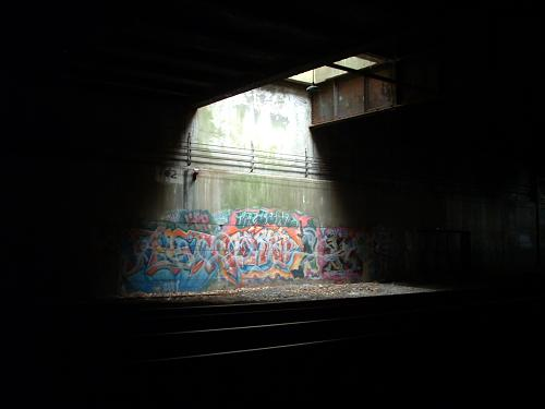 The Freedom Tunnel in Riverside Park, Manhattan in 2006